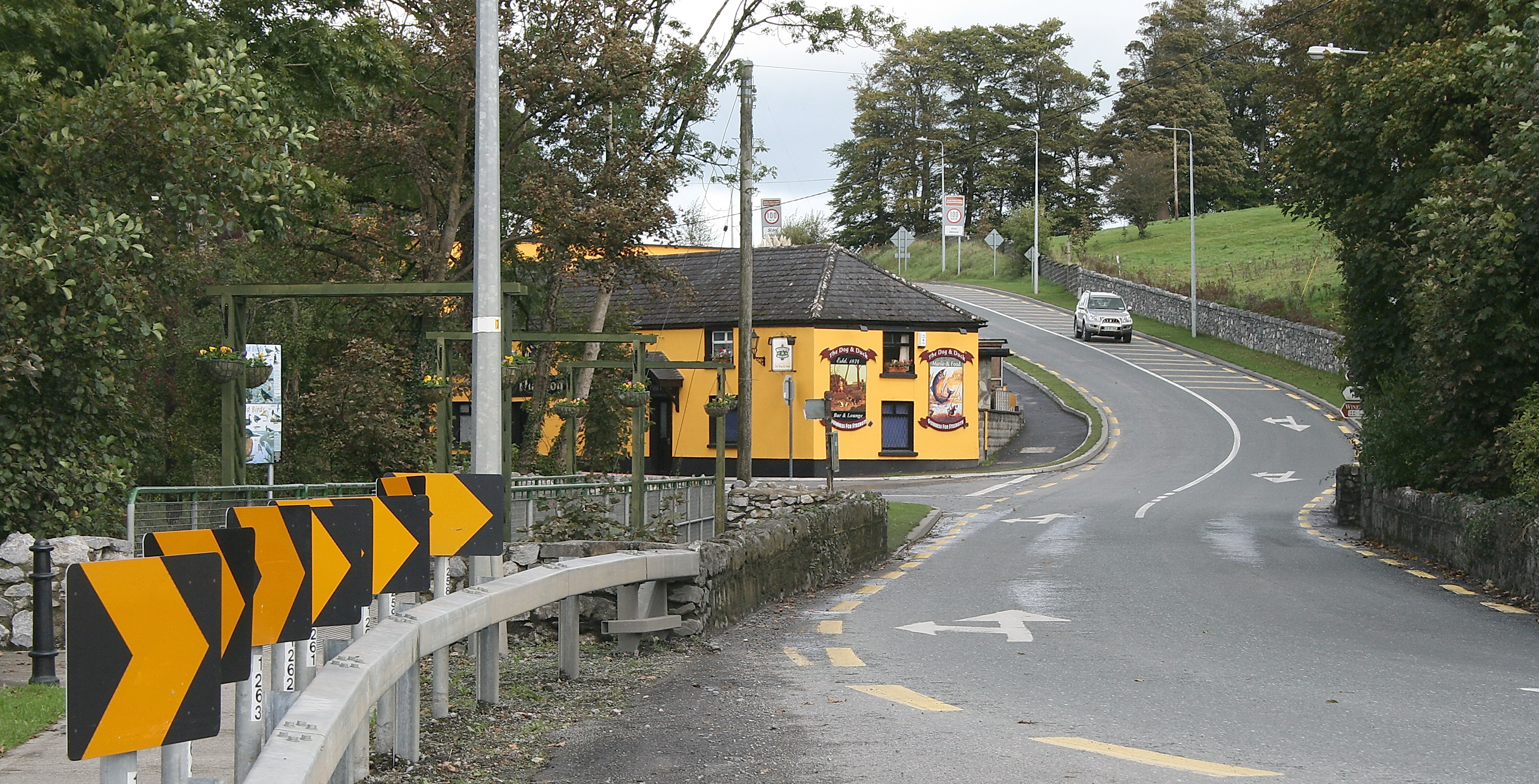 Ballykerran, County Westmeath, near to Ballykeeran and Glasan, Ireland. The Dog & Duck on the N55.